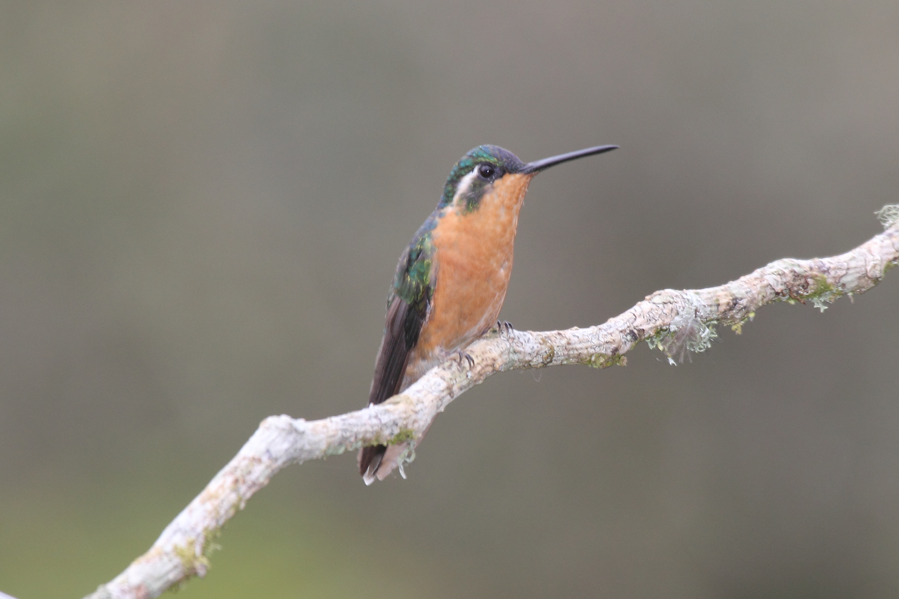 Female Lampornis castaneoventris, photographed at Savegre, in Costa Rica.